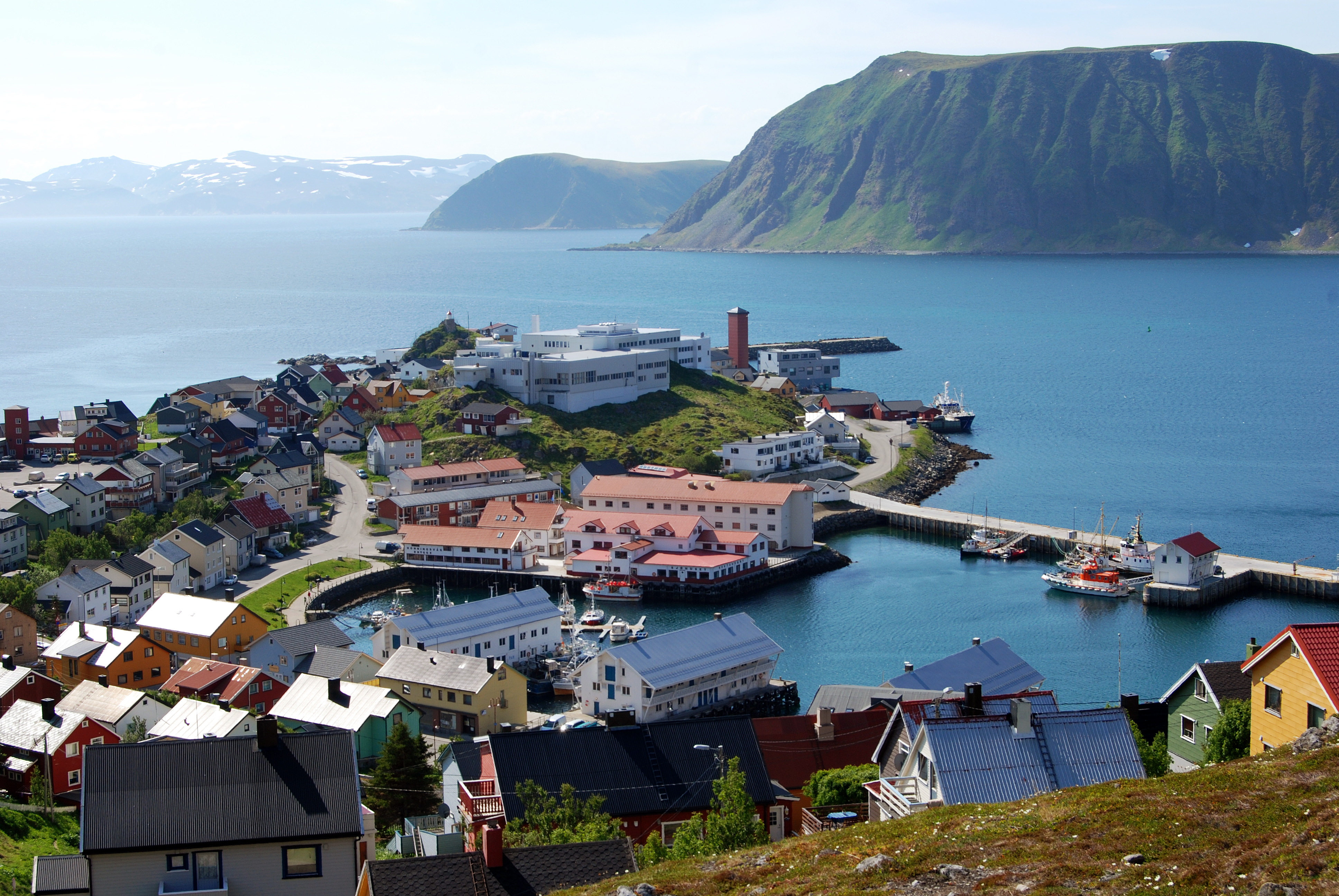 Views of Honningsvåg from the hills above the town